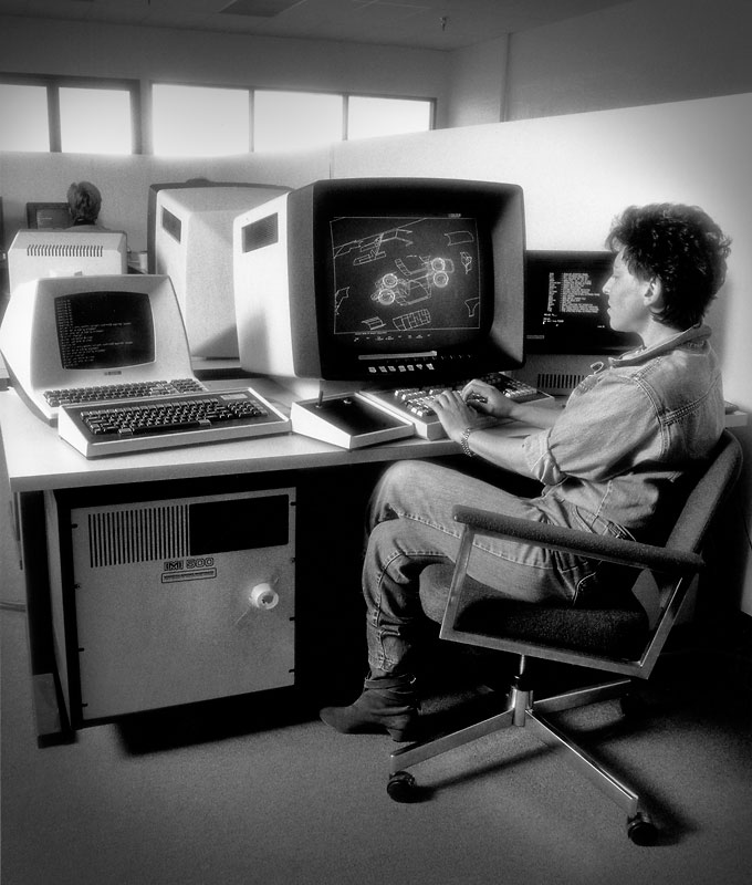 Photograph of Shelley Lake at Digital Productions in 1983 choreographing a scene from The Last Starfighter. Pictured at the IMI 500 workstation is a simulation of the Starcar, a computer generated element used in the movie.